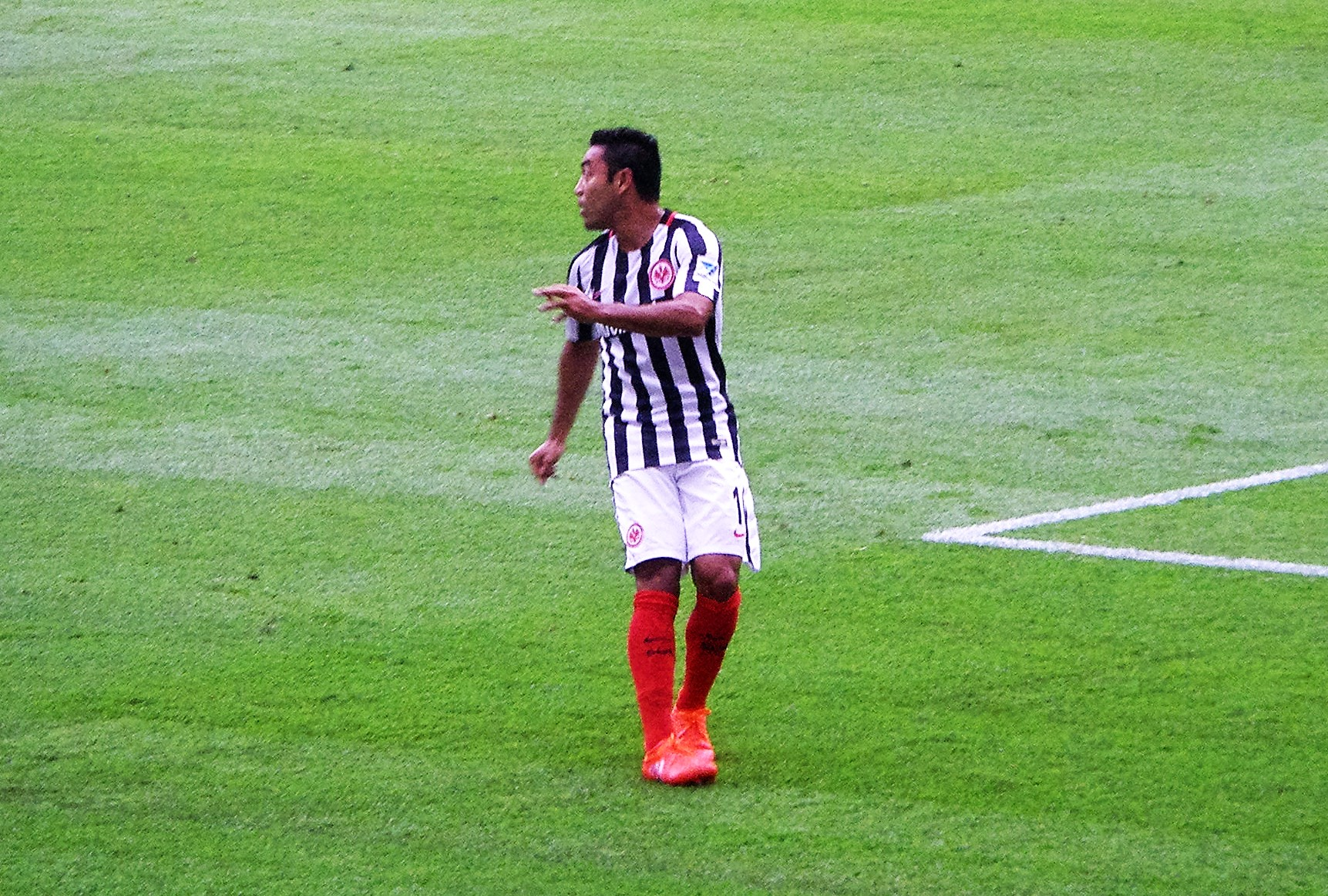 Marco Fabián in the match Eintracht Frankfurt vs Bayer 04 Leverkusen on September 17, 2016 where he made the assist to the 1-0 leading goal, shot the winning goal (2-1) and was voted man of the match.[1]